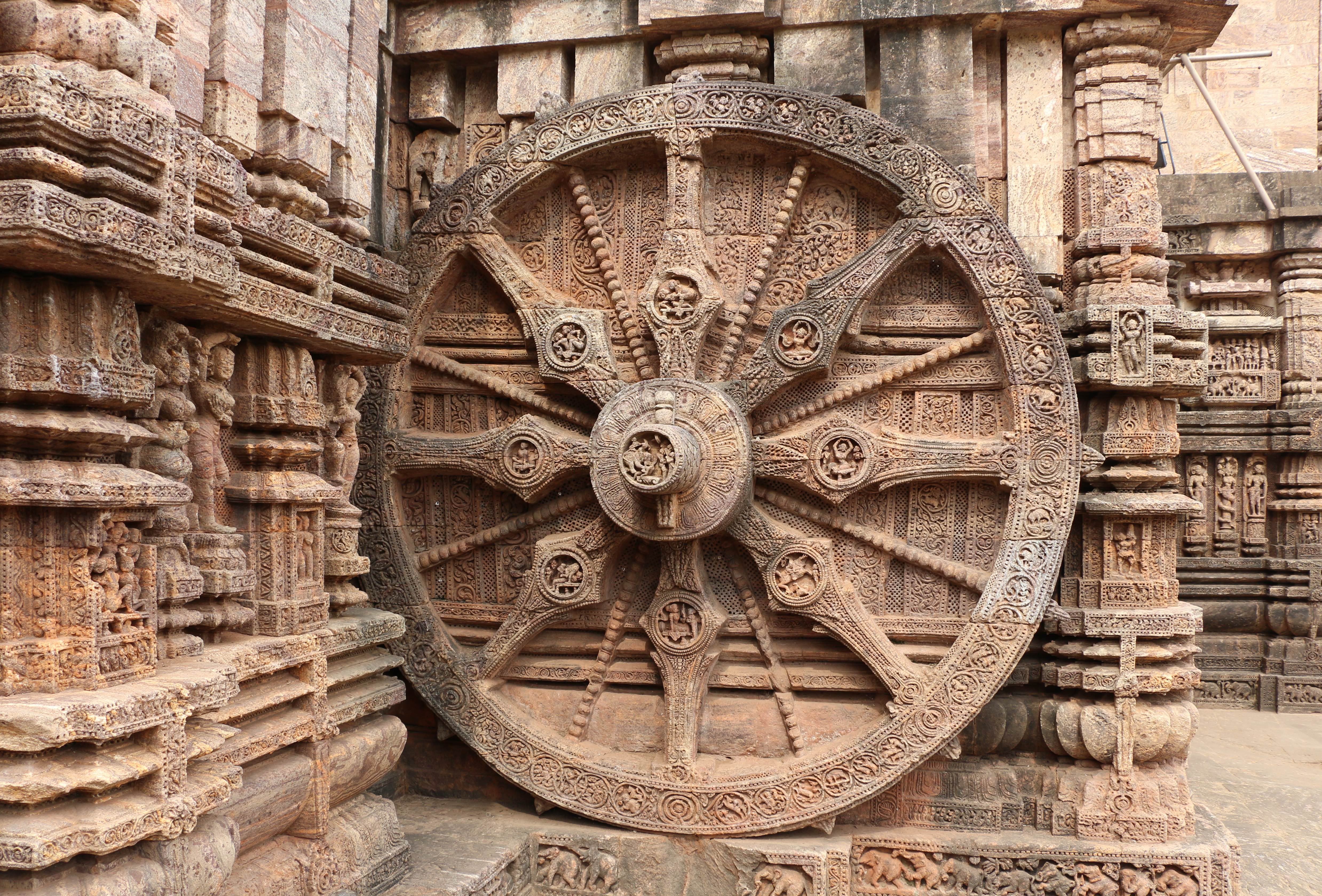 A chariot wheel of the Sun Temple, Konârak, India